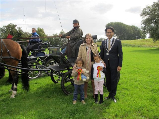 Harald Bergmann, mayor of Albrandswaard (South-Holland, the Netherlands). Visiting with his wife (Marjolijn Bergmann - van Leeuwen) and children the open door day of the Rhoonse Ruiters (horse riding society of Rhoon) on 18 september 2011.